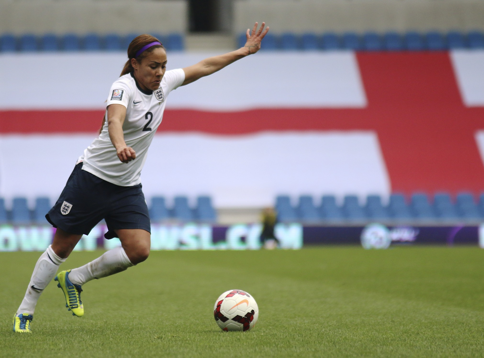 Alex Scott of England